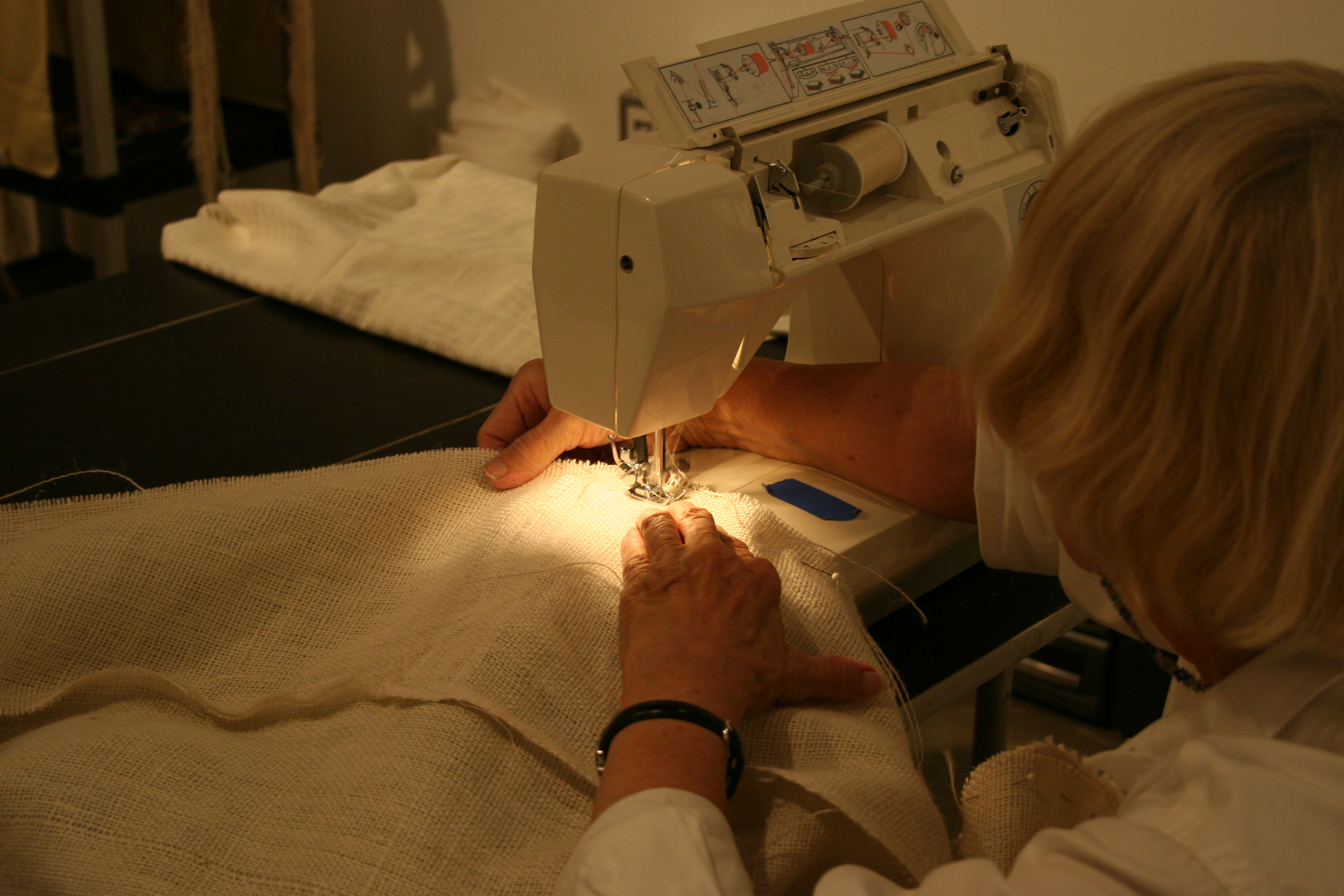 Shot on day 8 of the installation of Edith Abeyta's solo exhibition Salty: Three Tales of Sorrow at the El Camino College Art Gallery. Read my brief write-up of Day 8 here Pirkko DeBarr on the Sewing Macine - Edith Abeyta - Salty Three Tales of Sorrow at El Camino Colllege